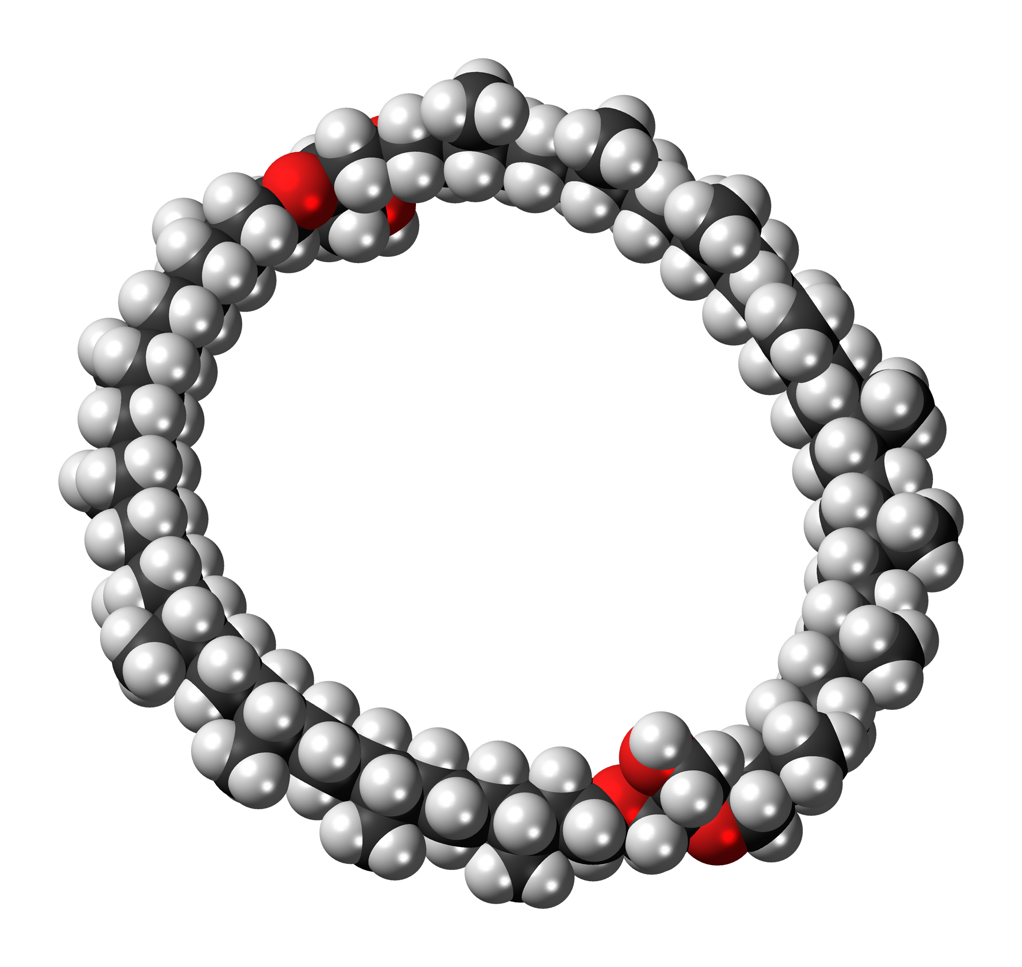 Space-filling model of the caldarchaeol molecule, a membrane-spanning lipid. Colour code: Carbon, C: black Hydrogen, H: white Oxygen, O: red